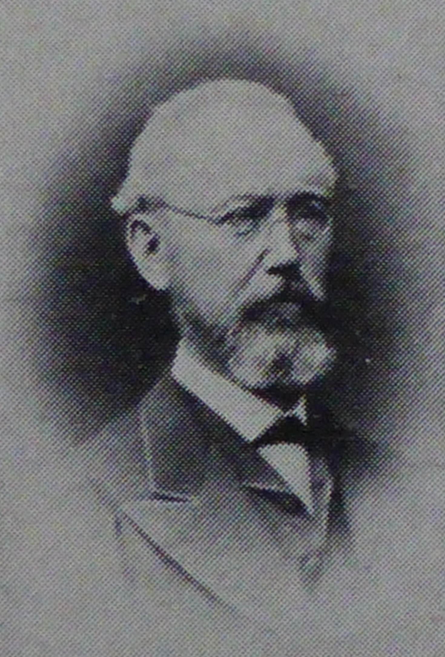 Swiss Climber Johann Heinrich Speich from Glarus (1813–1891).